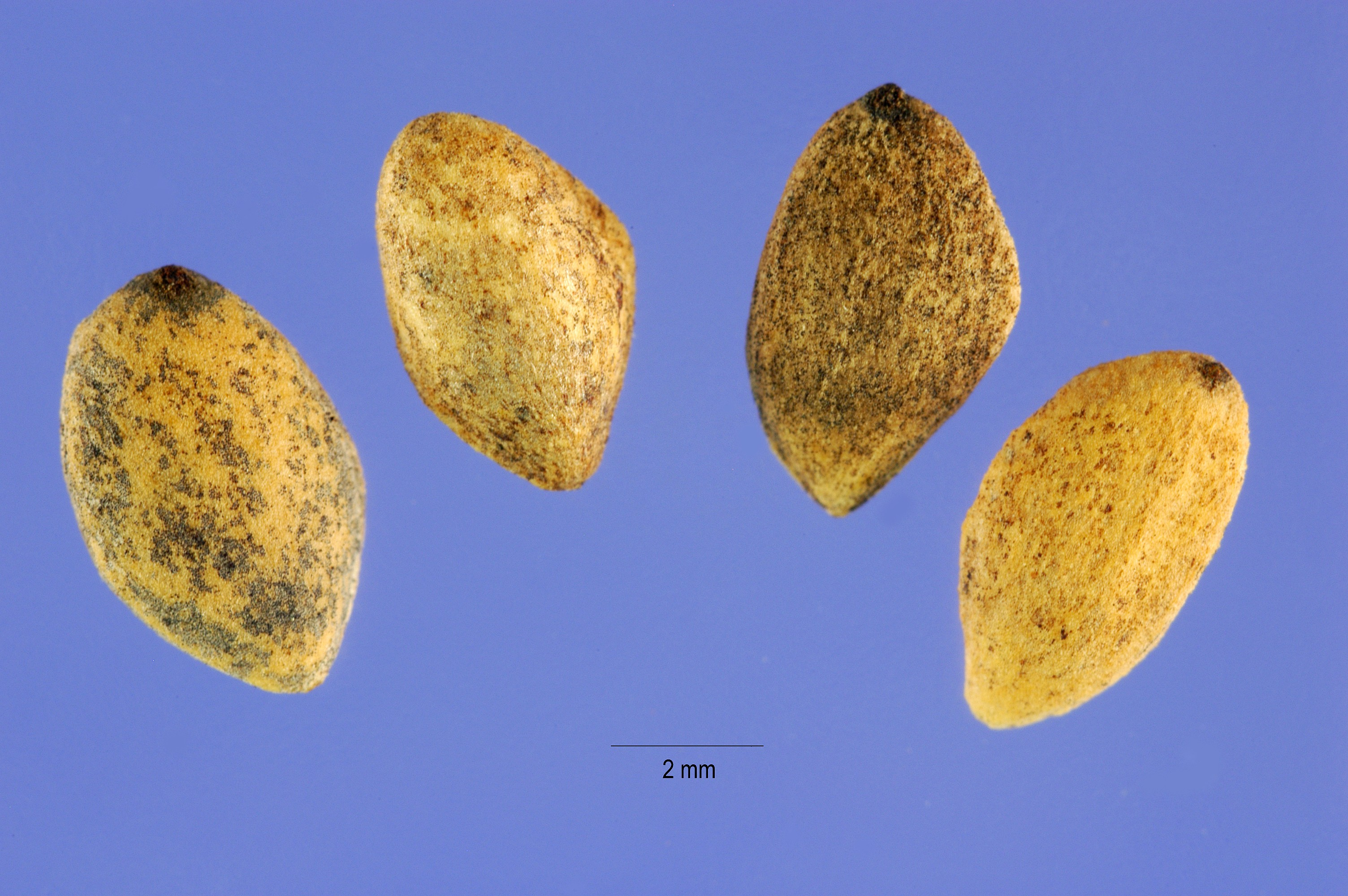 unwinged seeds of European Black Pine (Pinus nigra)